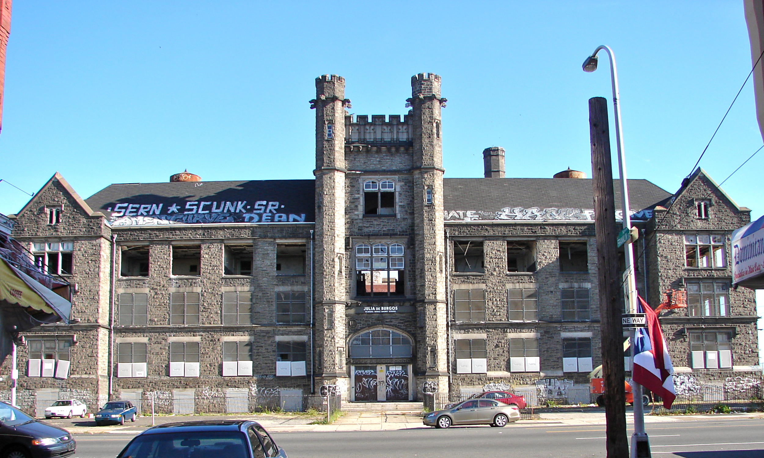 Northeast Manual Training School in Philadelphia on the NRHP since December 4, 1986. At 701 Lehigh Ave. in the Fairhill neighborhood of North Philly. The building now stands empty - notice how you can see all the way through the building where the windows are missing on the top floor.